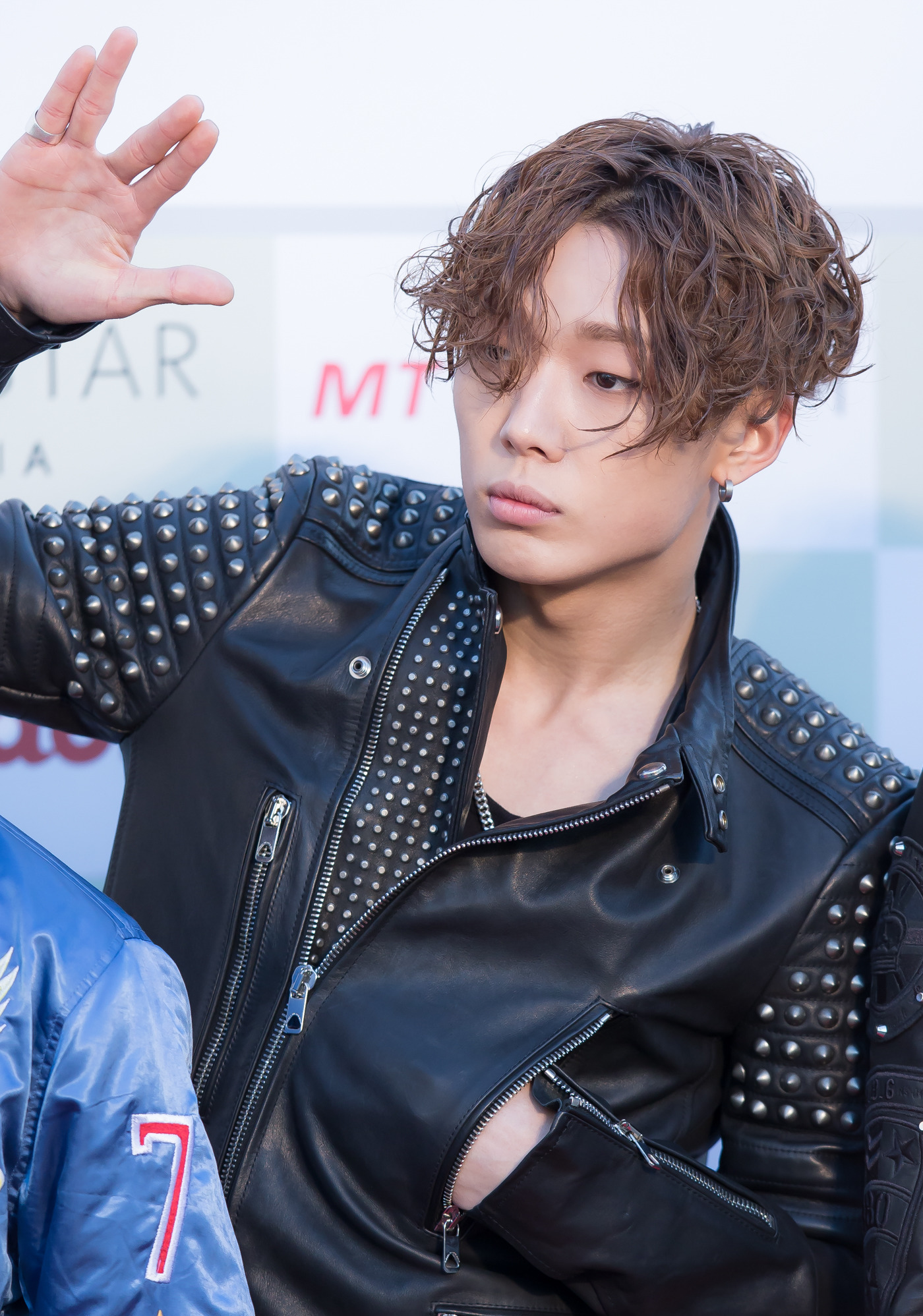 iKON's Bobby on the 2016 Gaon Chart K-pop Awards red carpet.